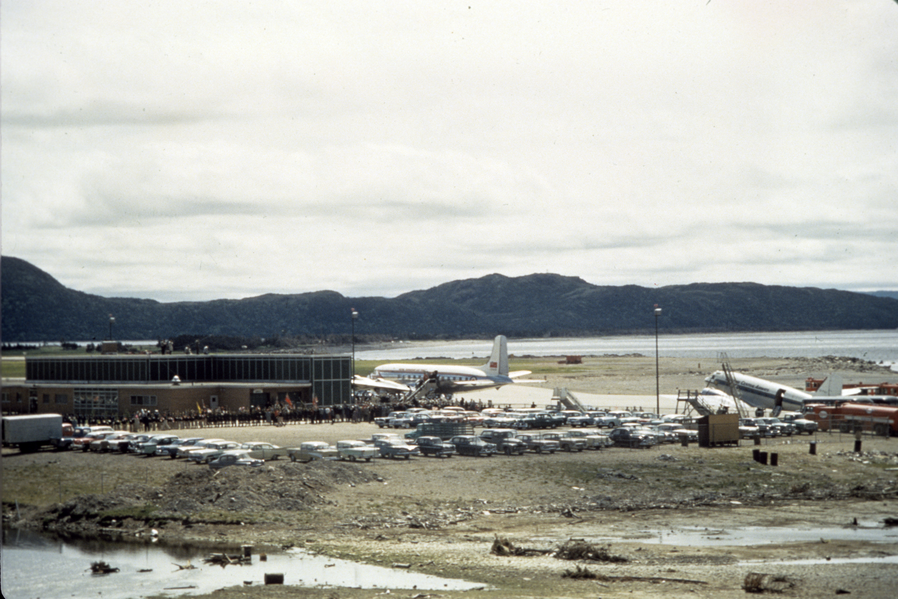 Stephenville Airport, 1963 (Newfoundland)